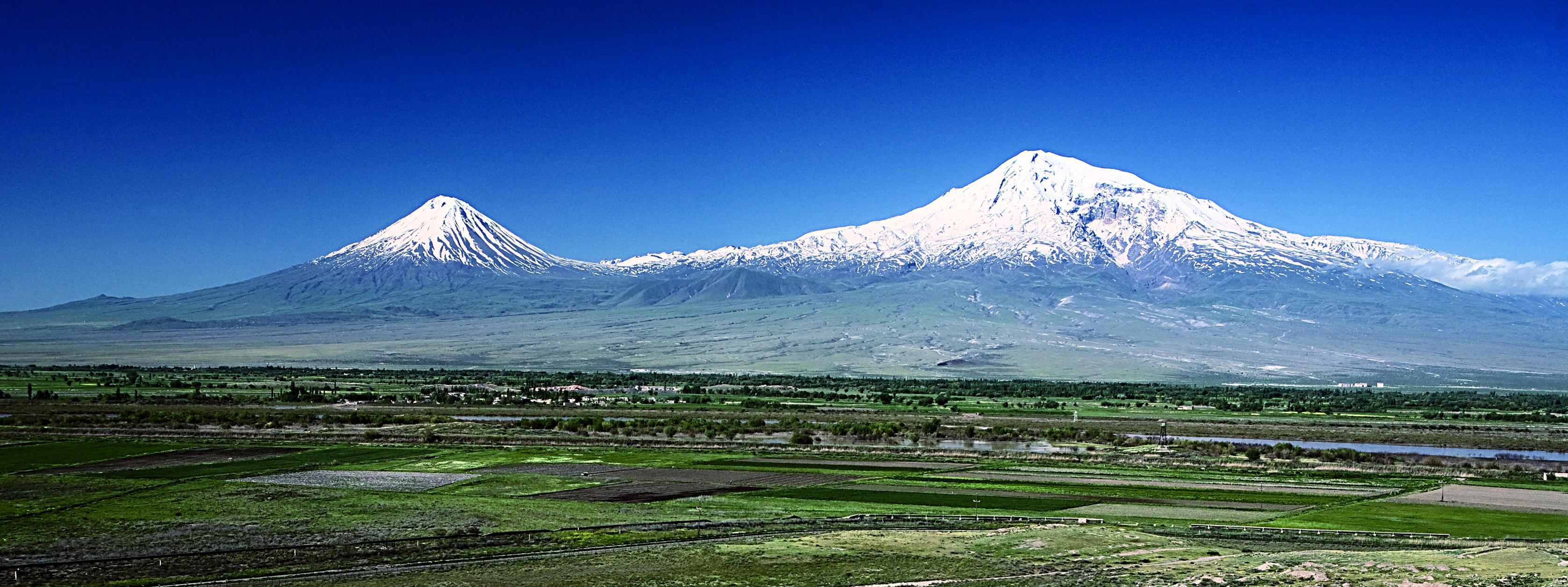 Double Peaked Ararat, Cropped 2